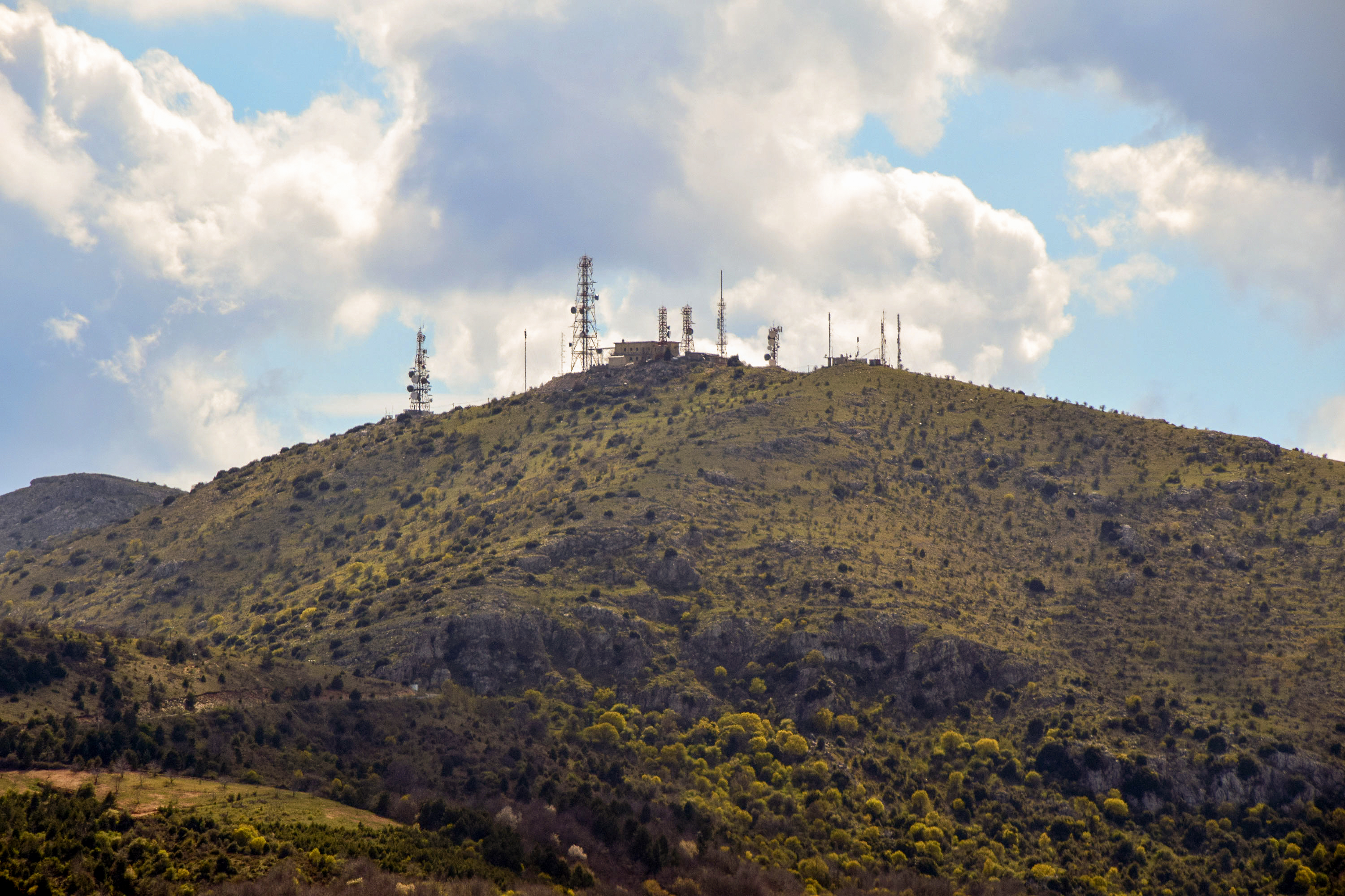 Telecommunications antennas on the hilltop (1390m. altitude) above Ano Doliana in Arcadia, Greece.